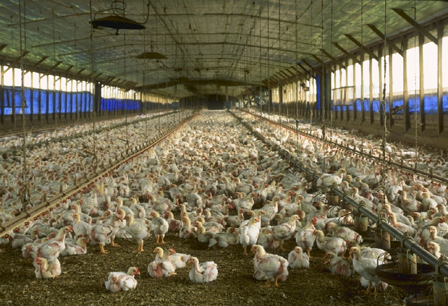 A commercial meat chicken production house in Florida, USA